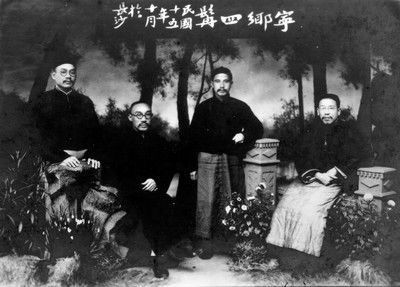 Ningxiang Four Celebrity,is He Shuheng,Xie Juezai,Jiang Mengzhou,Wang Lingbo.This Photo released in 1926.